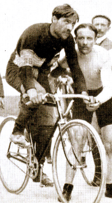 Tour de France 1903. The third place: Fernand Augereau. Der dritte Platz: Fernand Augereau. La troisième place : Fernand Augereau. El tercer lugar: Fernand Augereau. Третье место: Фернан Ожеро.